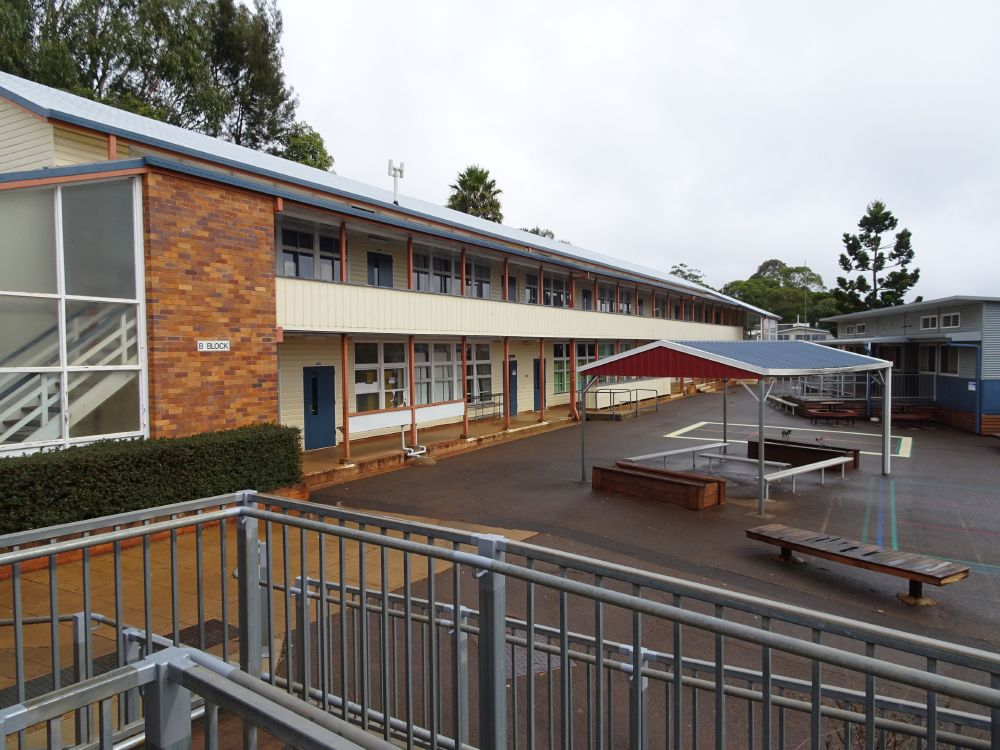 650037 Block B, north side (flower box on left), looking southwest